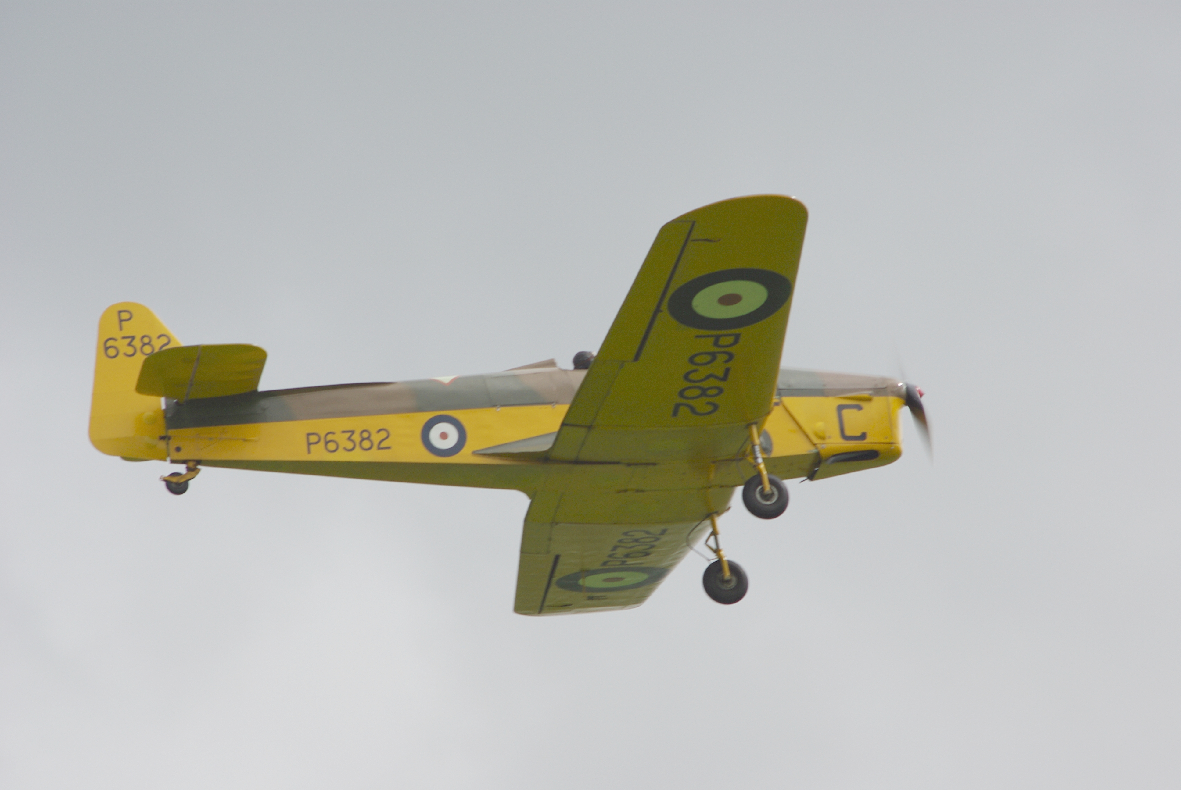 Miles M.14A Magister I G-AJRS, painted as P6382 which it used to be and owned by the Shuttleworth Trust, flying at Old Warden 7 September 2008.